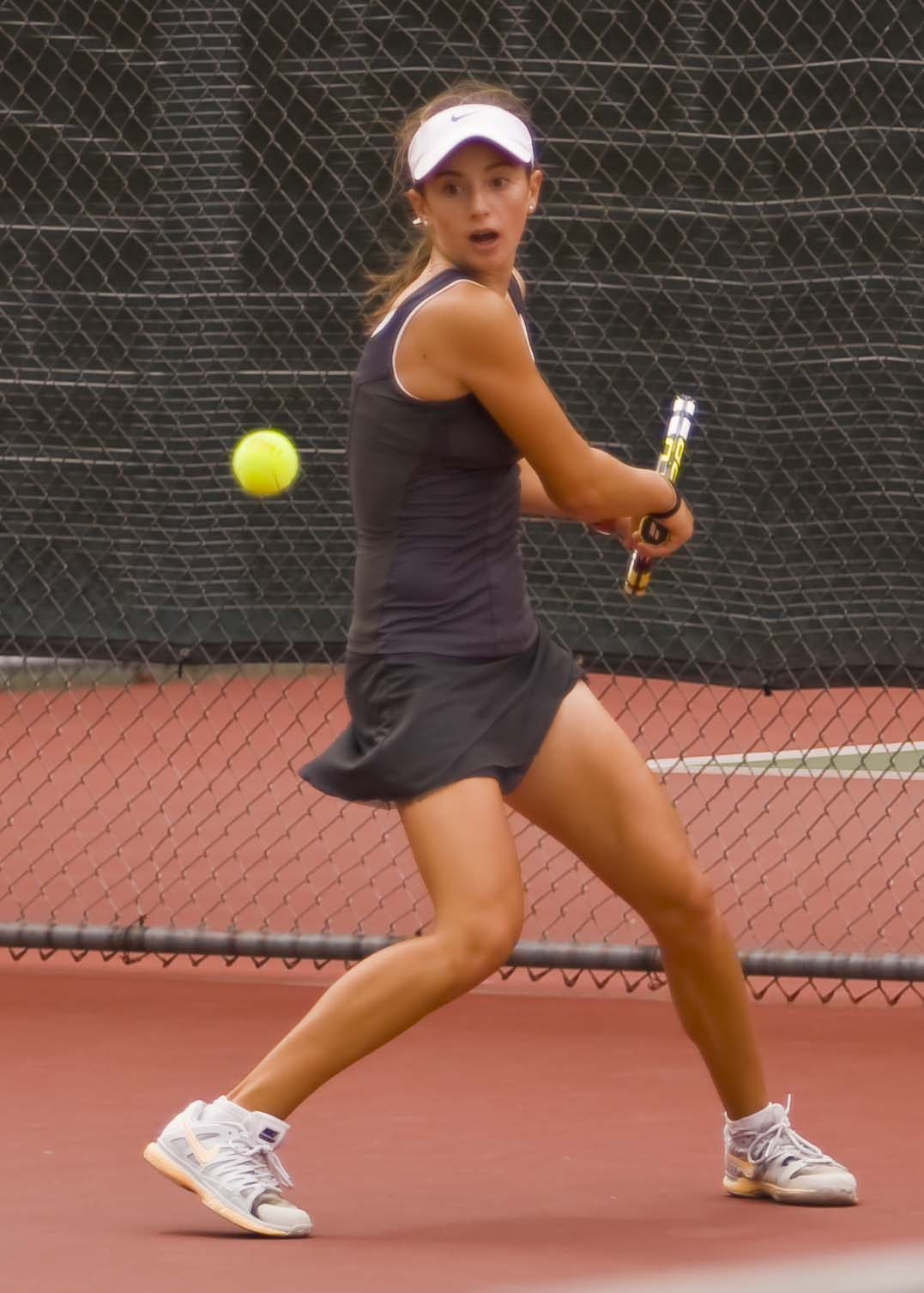 Catherine Bellis braces for a backhand during the Women's Open Singles final at the Mountain View Open.